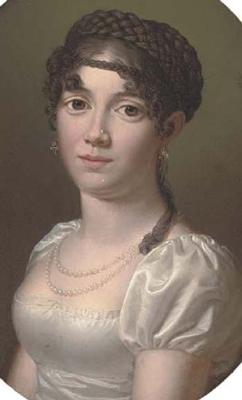 Princess Juliane Sophie of Denmark